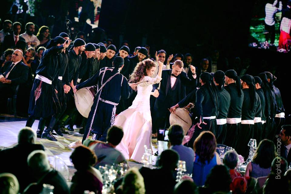 Arabic wedding Dabkeh Zaffeh